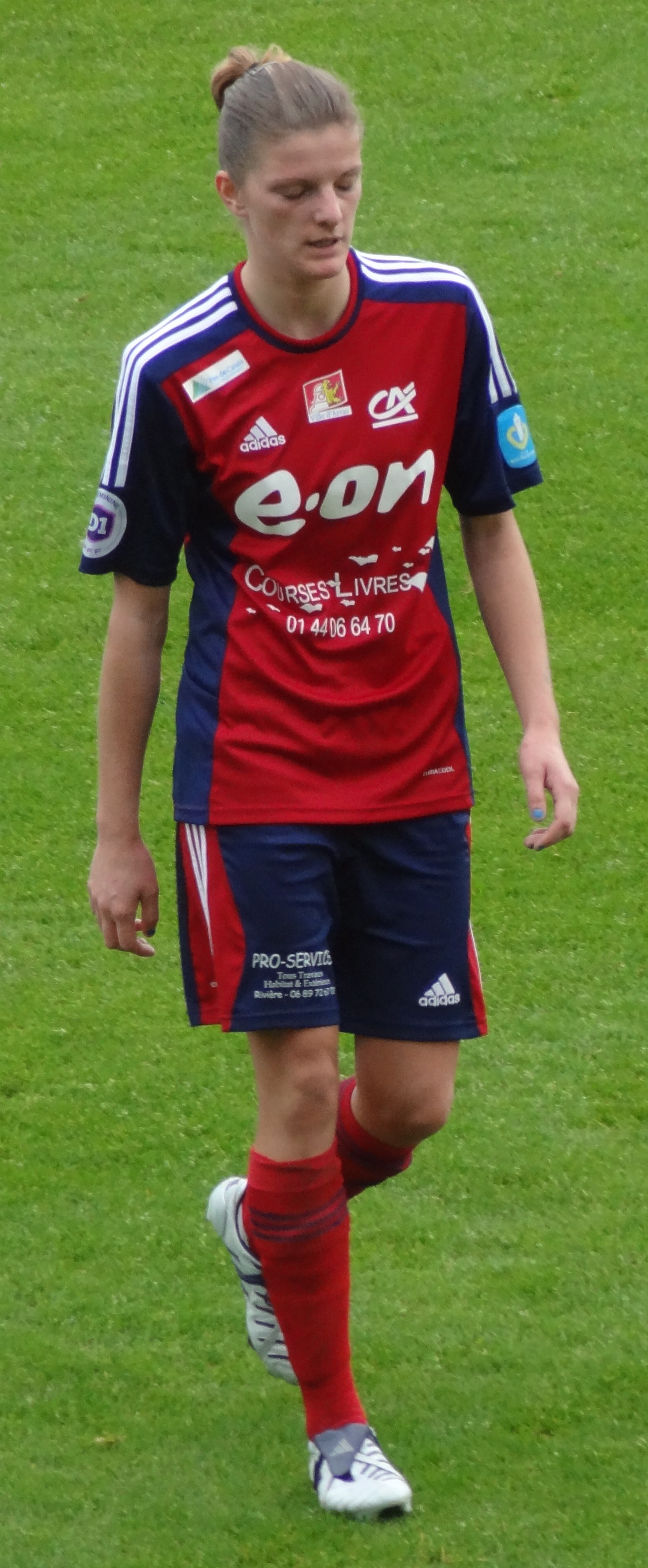 Ludivine Bultel (Arras Football féminin, D1 2012-2013) soccer player